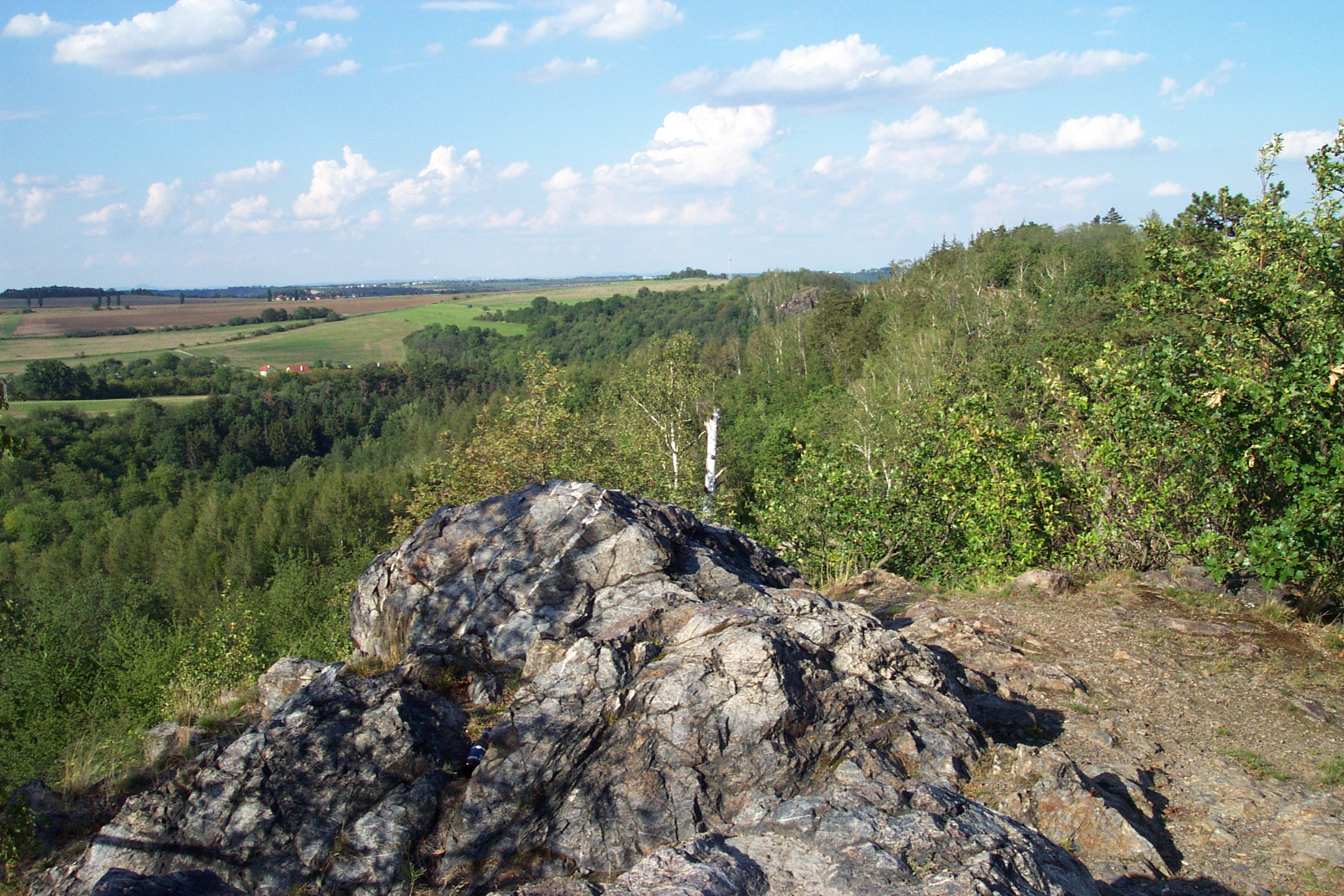 View from lookout place above the Horoměřický potok stream near Horoměřice, CZ